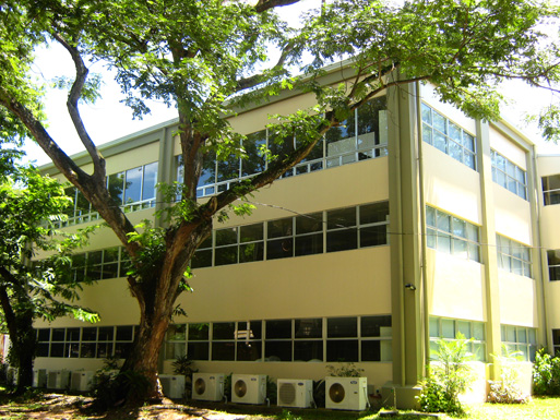 May Smith Hall of the Silliman University College of Nursing